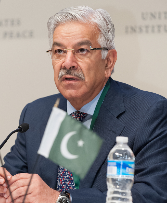 U.S. - Pakistan Clean Energy Business Opportunities Conference December 1-2, 2015.